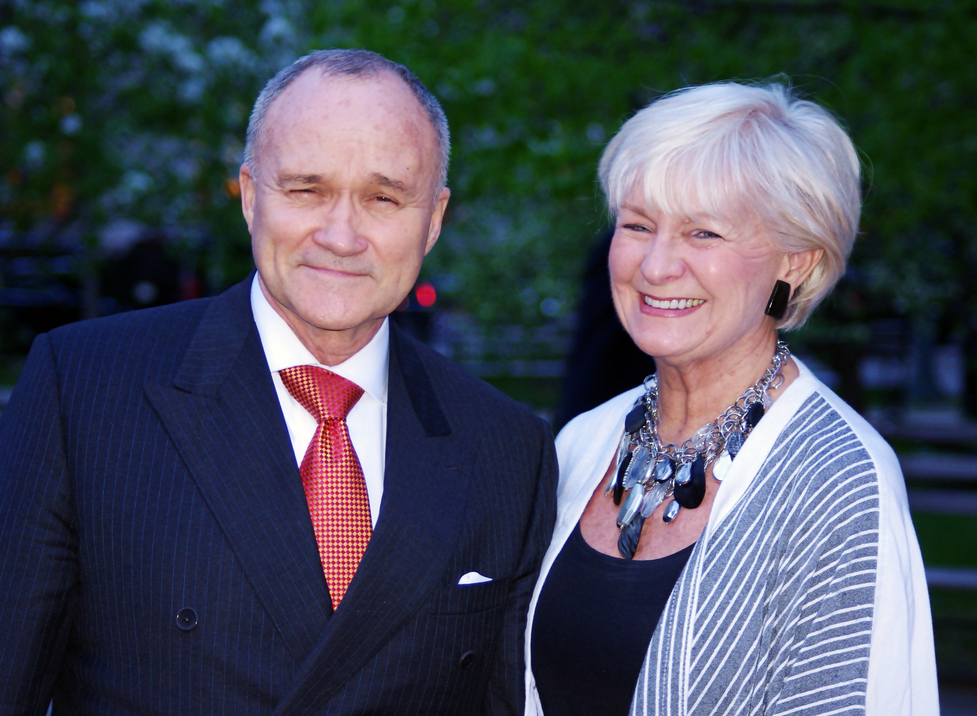 Ray Kelly and his wife Veronica at the Vanity Fair party celebrating the 10th anniversary of the Tribeca Film Festival.